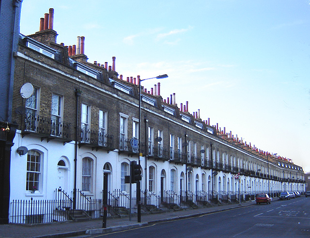 Terraced housing, Shepherdess Walk, Hoxton, Hackney, London. 28 January 2006. Photographer: Fin Fahey.